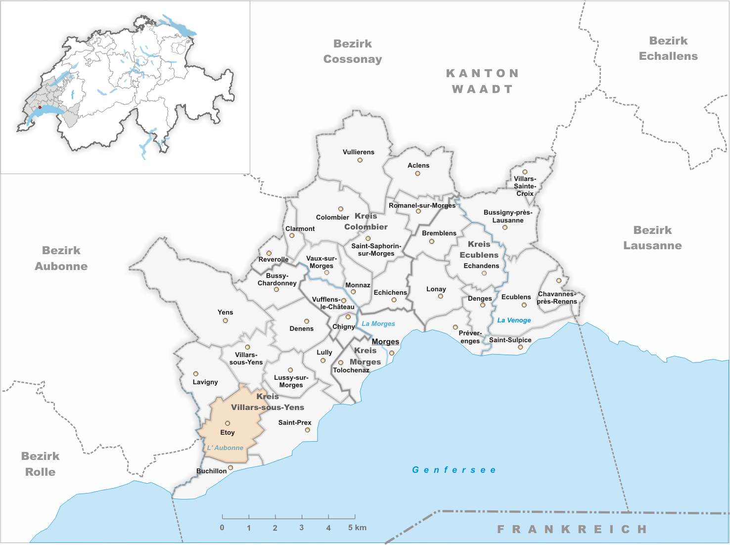 Municipality Etoy